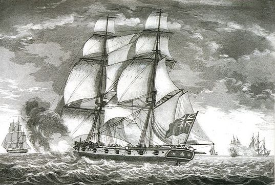 A King's-Brig in Chase of a Privateer; aquatint